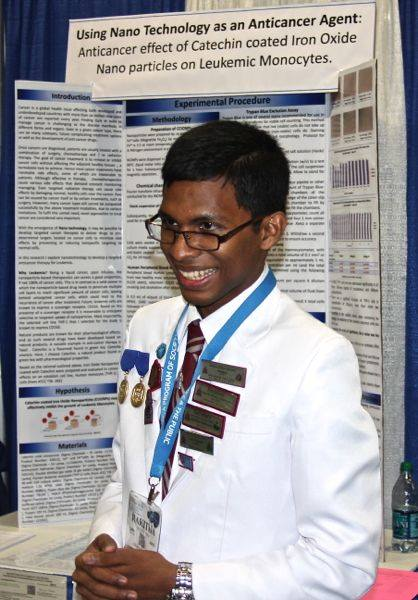 Intel ISEF 2014, Los Angeles. USA